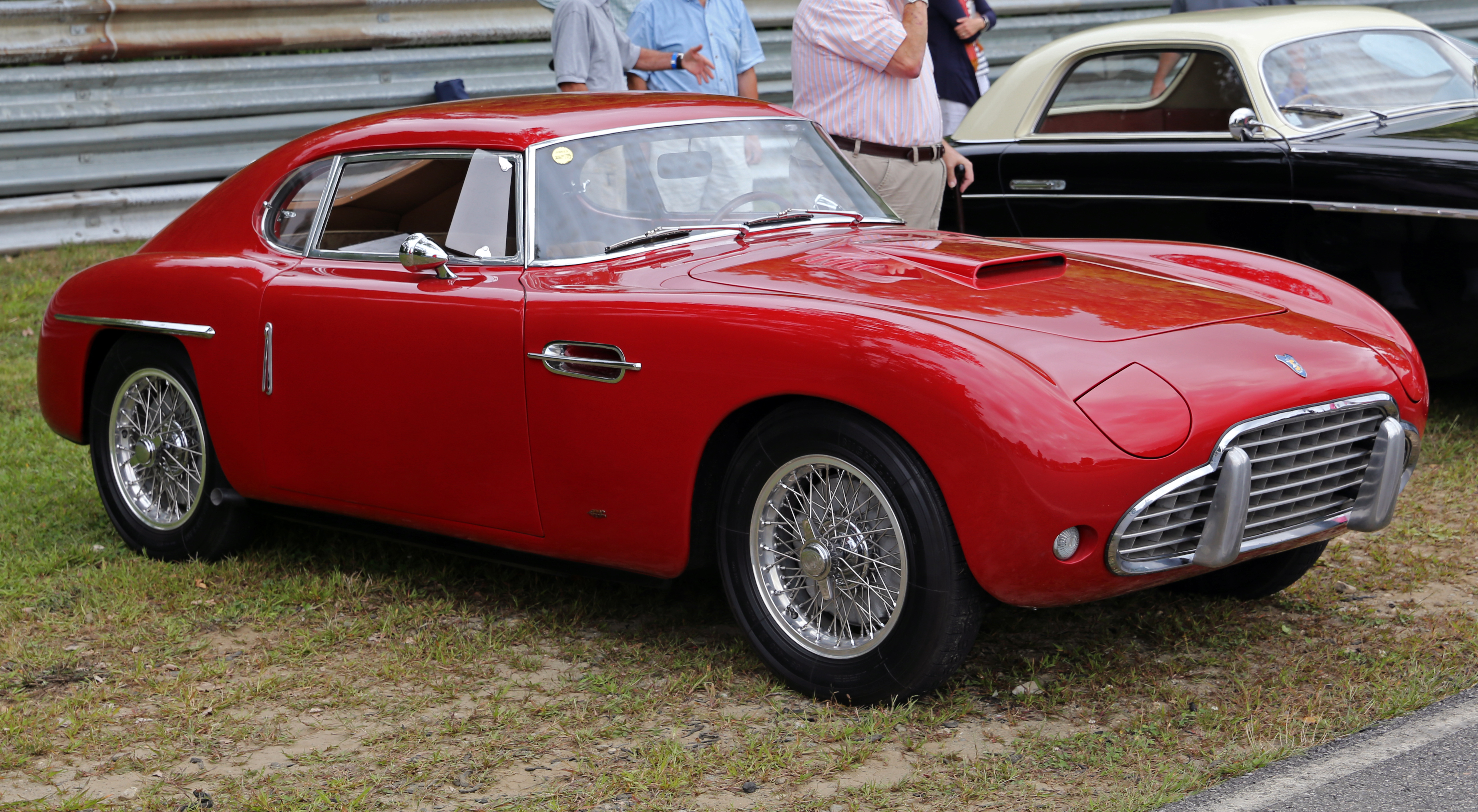 Front right hand view of a 1954 Siata 200CS (similar to the 208 C.S.) at the 2014 Lime Rock Concours d'Élegance. Chassis number CS071, engine number CS052. This is one of eleven Balbo-bodied coupés, six of which remain today.